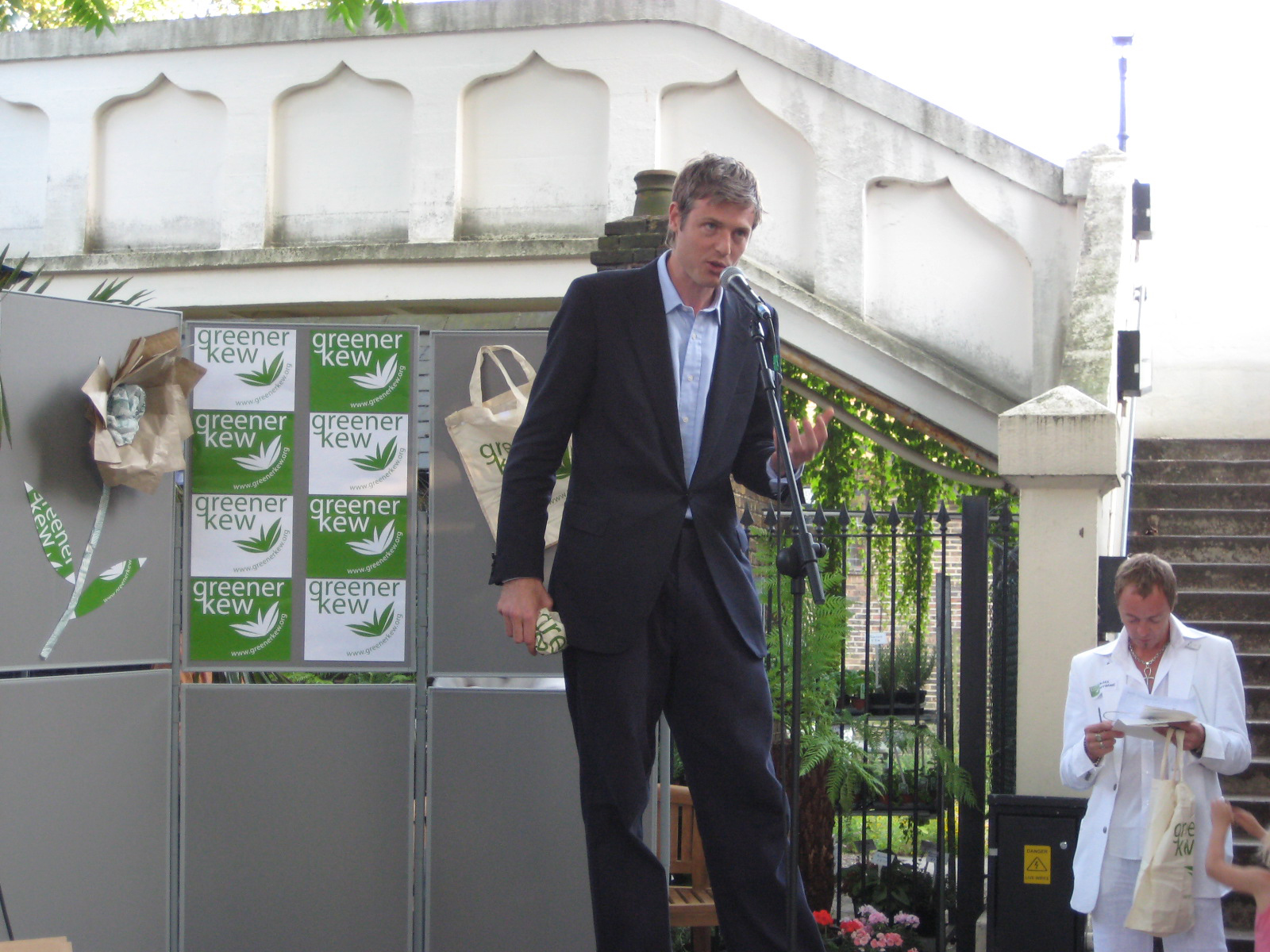 Environmentalist Zac Goldsmith at a rally near the Kew Gardens station in June 2008.